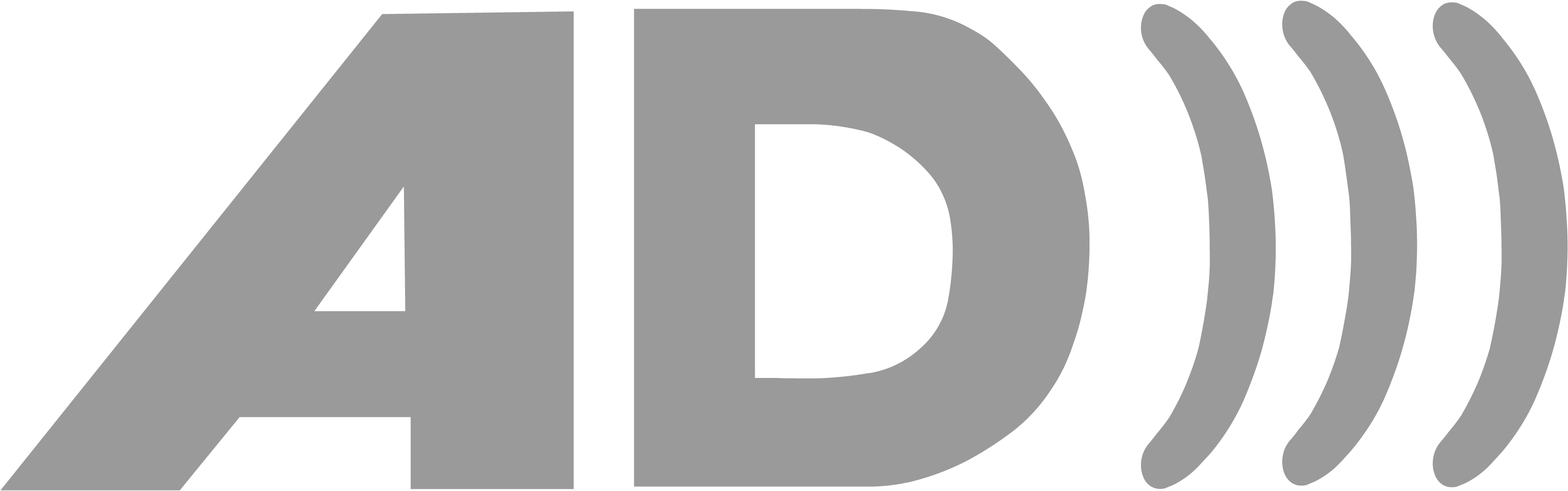 The AD))) screen bug seen on Disney-owned television networks.